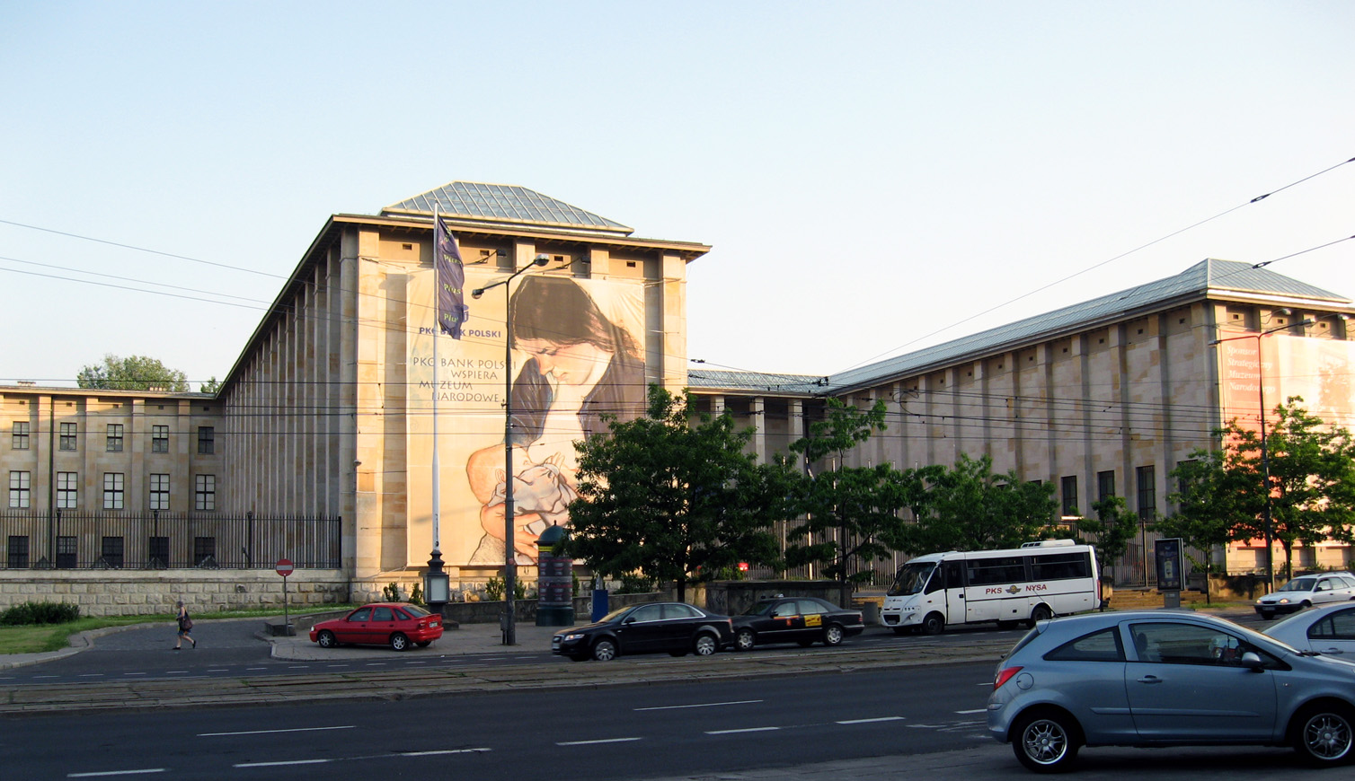 Building of the National Museum in Warsaw. It was constructed between 1927-1938 in the modernist style, according to design by Tadeusz Tołwiński.